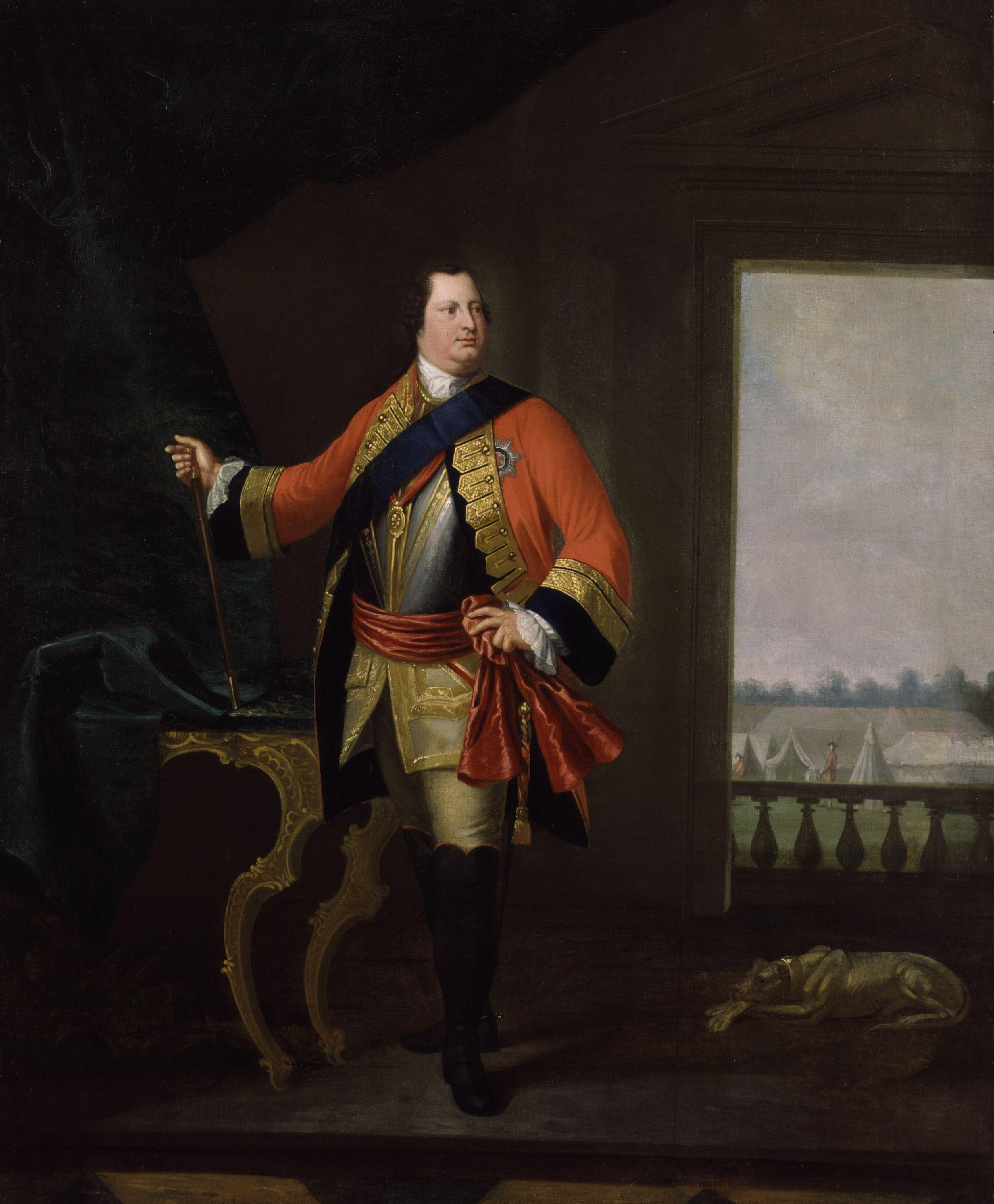 William Augustus, Duke of Cumberland, by David Morier (died 1770). All images in this batch have been confirmed as author died before 1939 according to the official death date listed by the NPG.